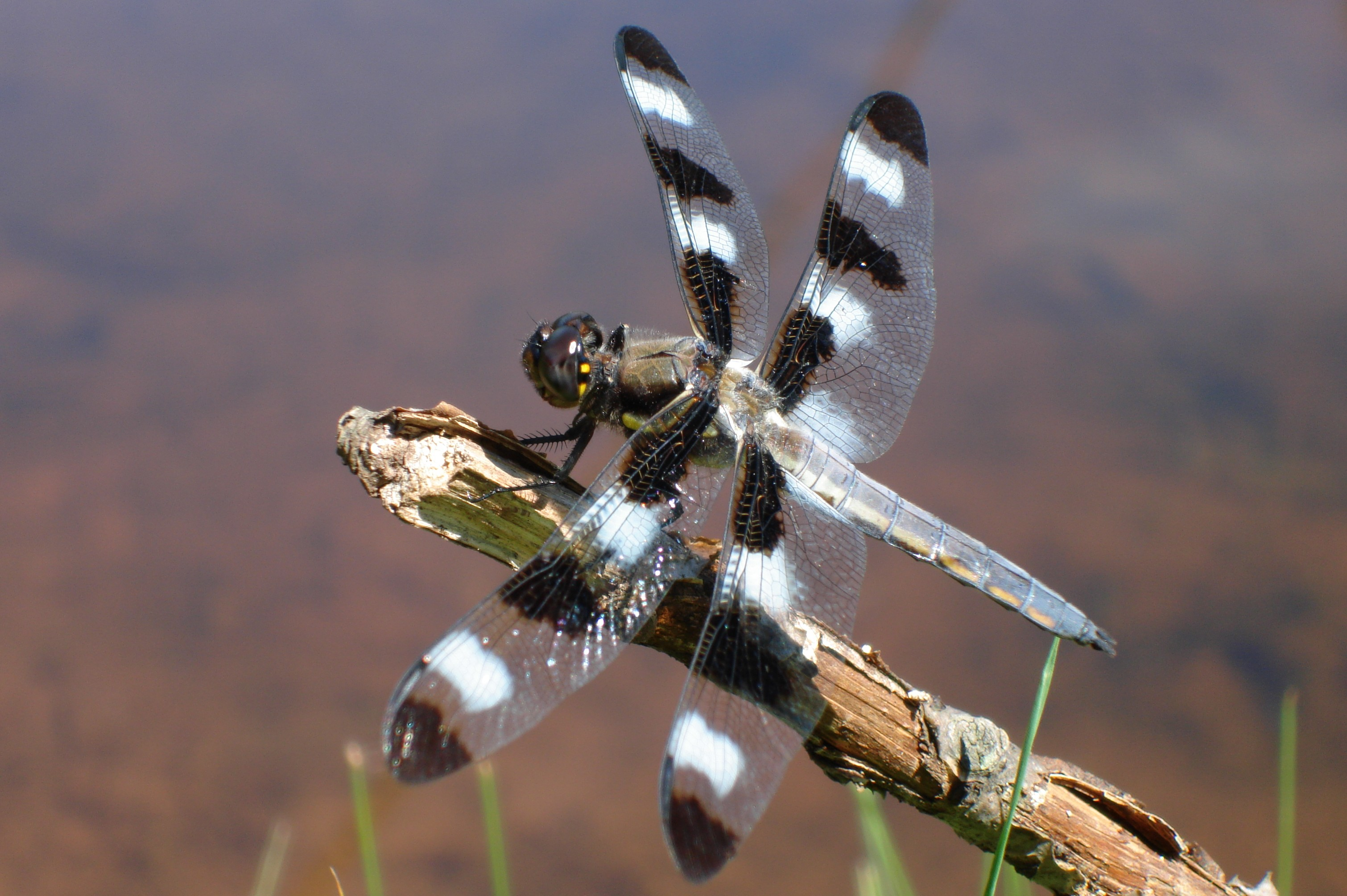 Twelve Spotted Skimmer (Libellula pulchella) photographed at Head of the Rapids Group Camp in Saint Croix State Park during the Edgewood High School 2006 Field Education Course